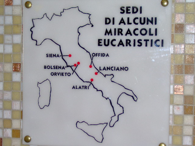 Eucharistic Miracle of Lanciano - public documentation - the others.JPG Sites of other eucharistic miracles. Made by myself. The panel is public for all visitors.